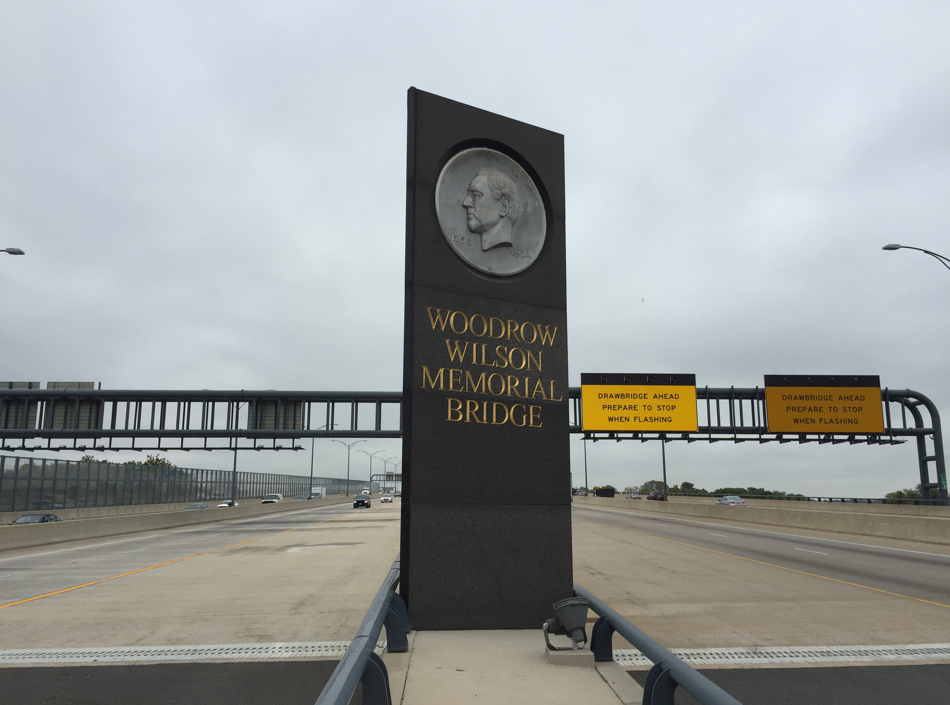 View east from the west end of the Woodrow Wilson Bridge along northbound Interstate 95 and the eastbound outer loop of the Capital Beltway (Interstate 495) in Alexandria, Virginia